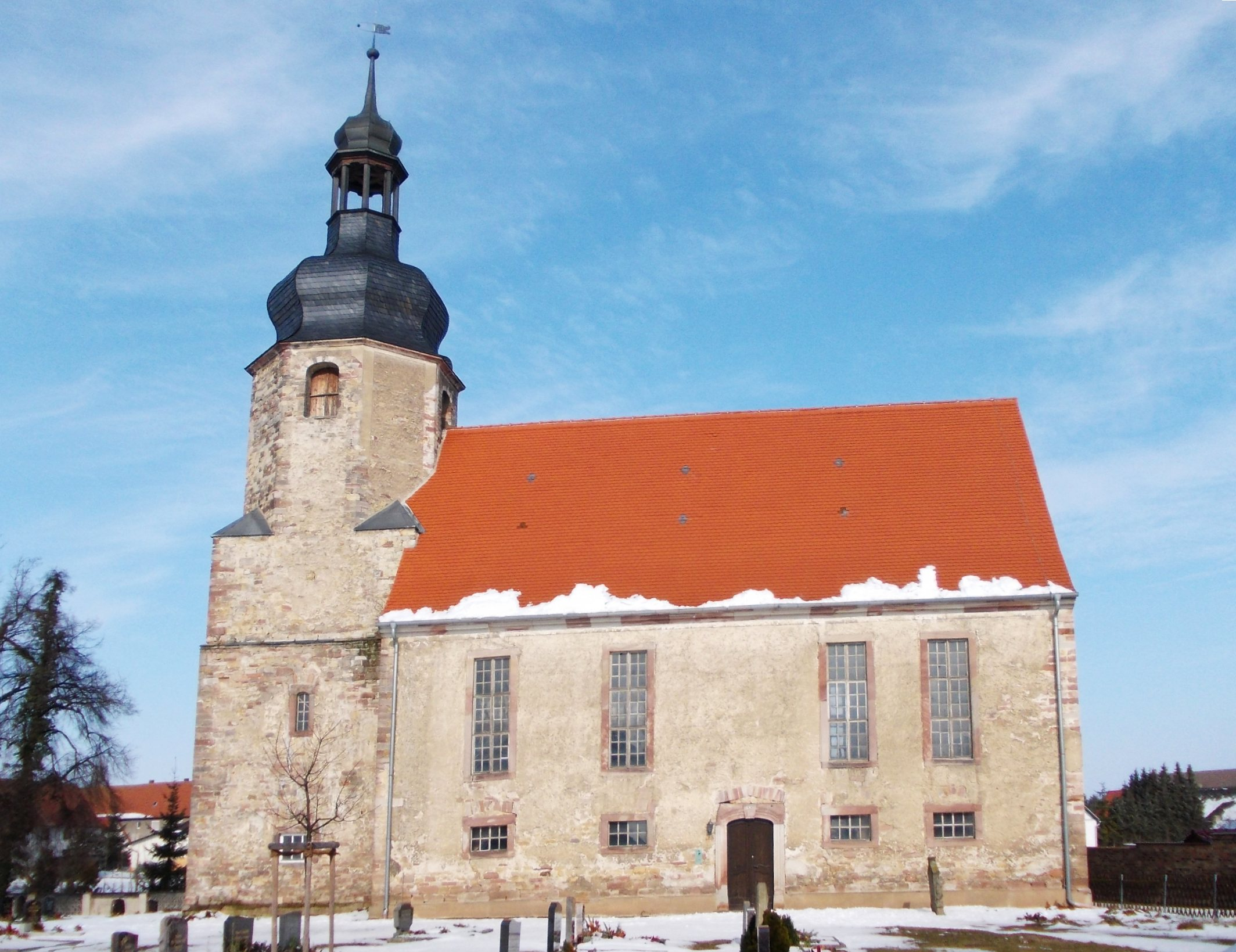 St. Kilian's Church in Göhritz (Barnstädt, district of Saalekreis, Saxony-Anhalt)